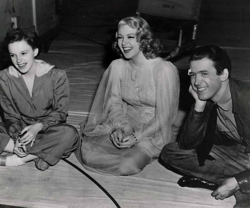 Judy Garland, Lana Turner, and James Stewart on the set of Ziegfeld Girl